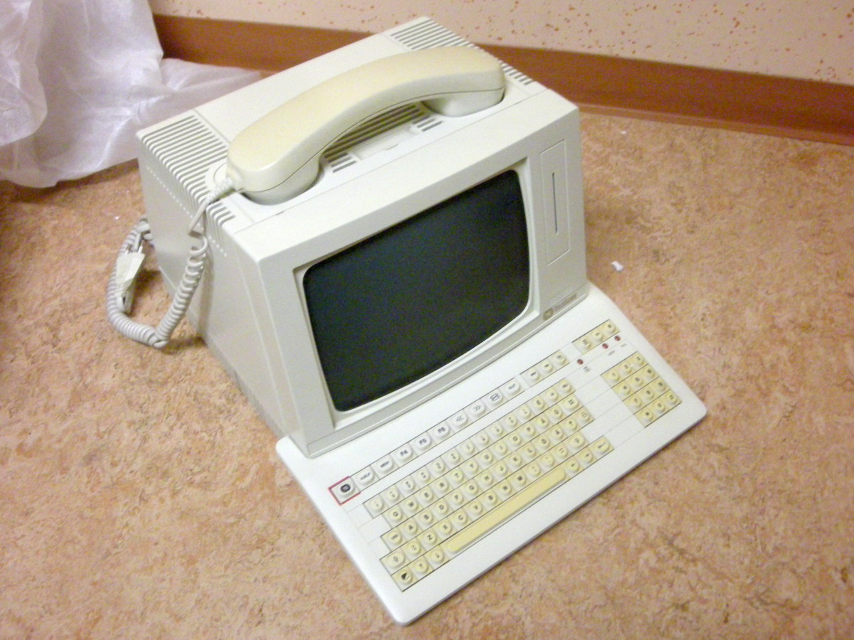 Teleguide terminal, a Swedish system inspired by the French Minitel system.